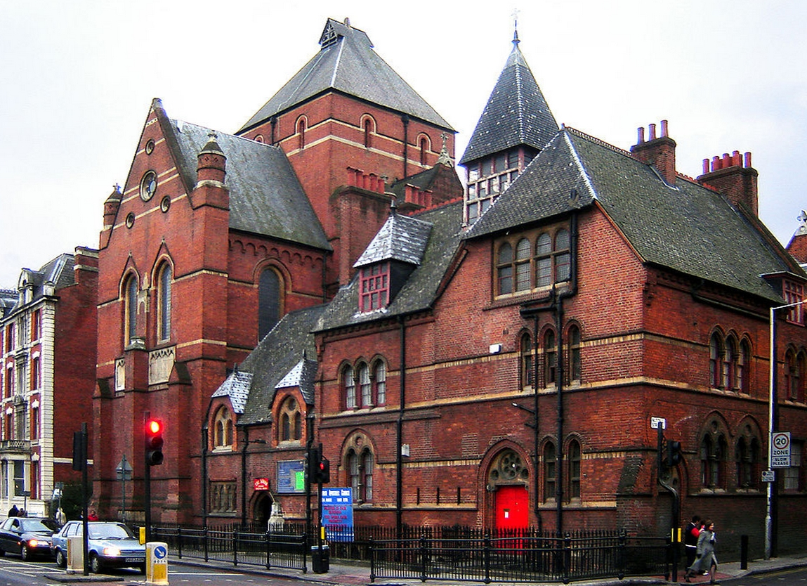 Formerly St Columba's Anglican church, it's good to know that this wonderfully eccentric complex of buildings carries two English Heritage Grade II* listings, one for the church and one for the vicarage. The fine interior fittings have largely survived too...